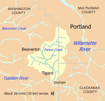 Map of Fanno Creek watershed in Multnomah County, Washington County, and Clackamas County, Oregon, United States. The creek begins in Portland, Oregon, and flows into the Tualatin River at Durham.